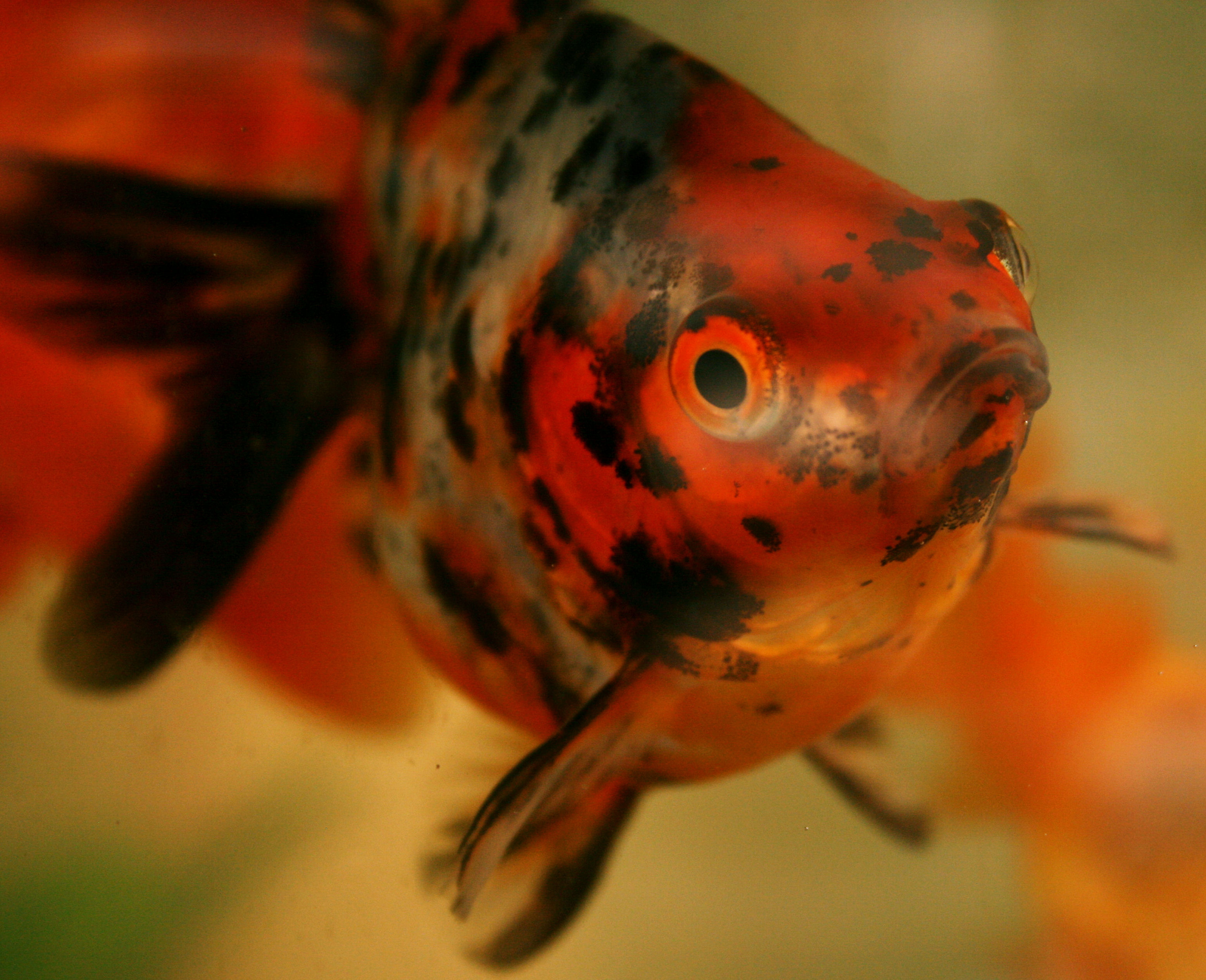 female calico ryukin.